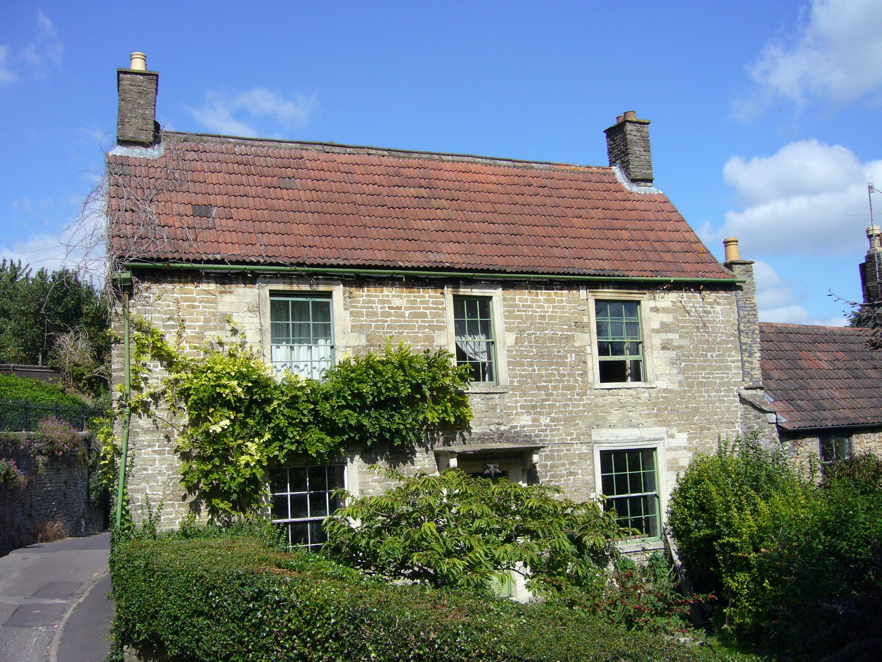 House on Bath Street in Frome. Photographed in September 2007. Required attribution is: Photo by Tom Oates.